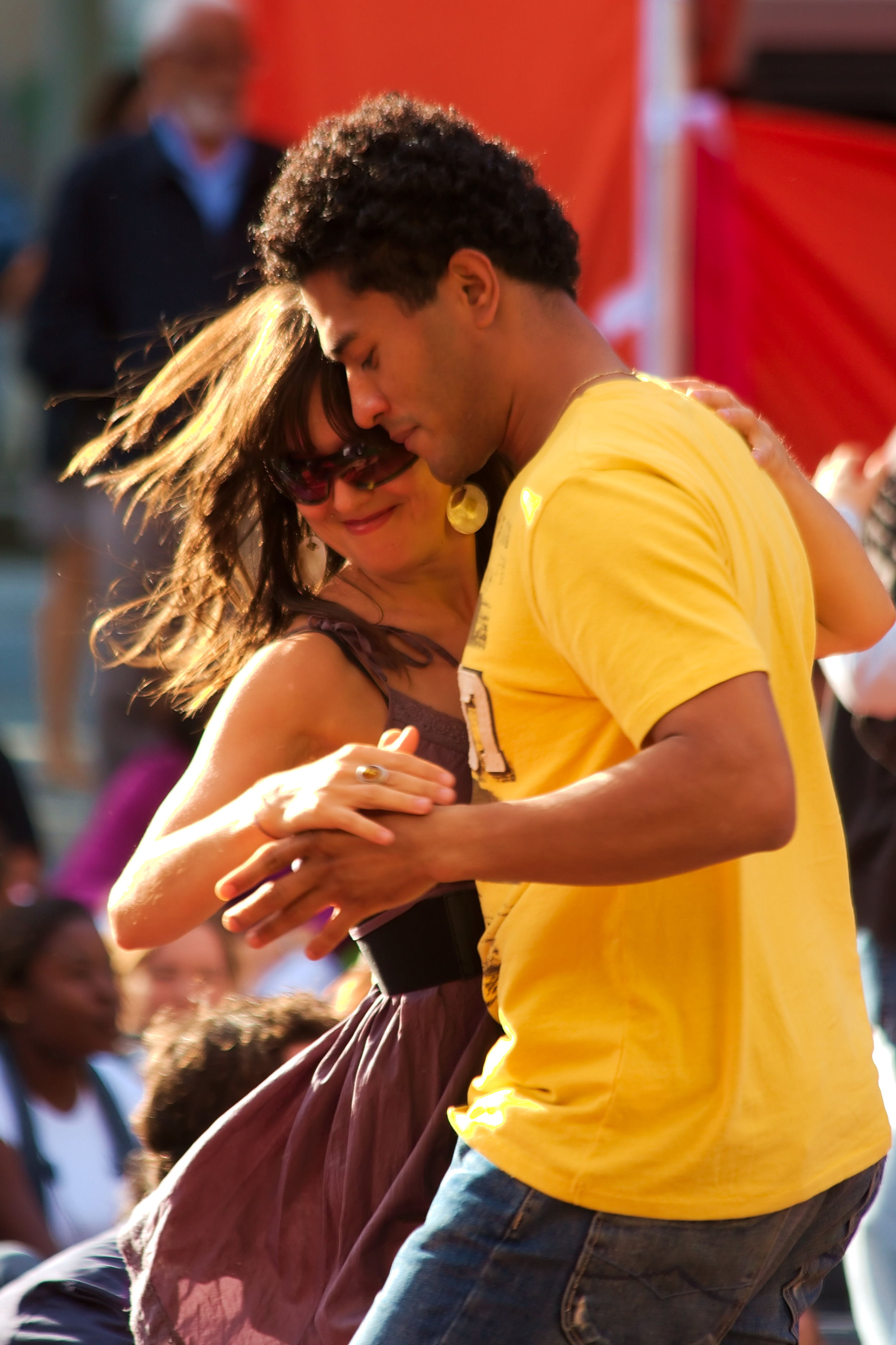 A couple dance to the band Merengada at London's South Bank.